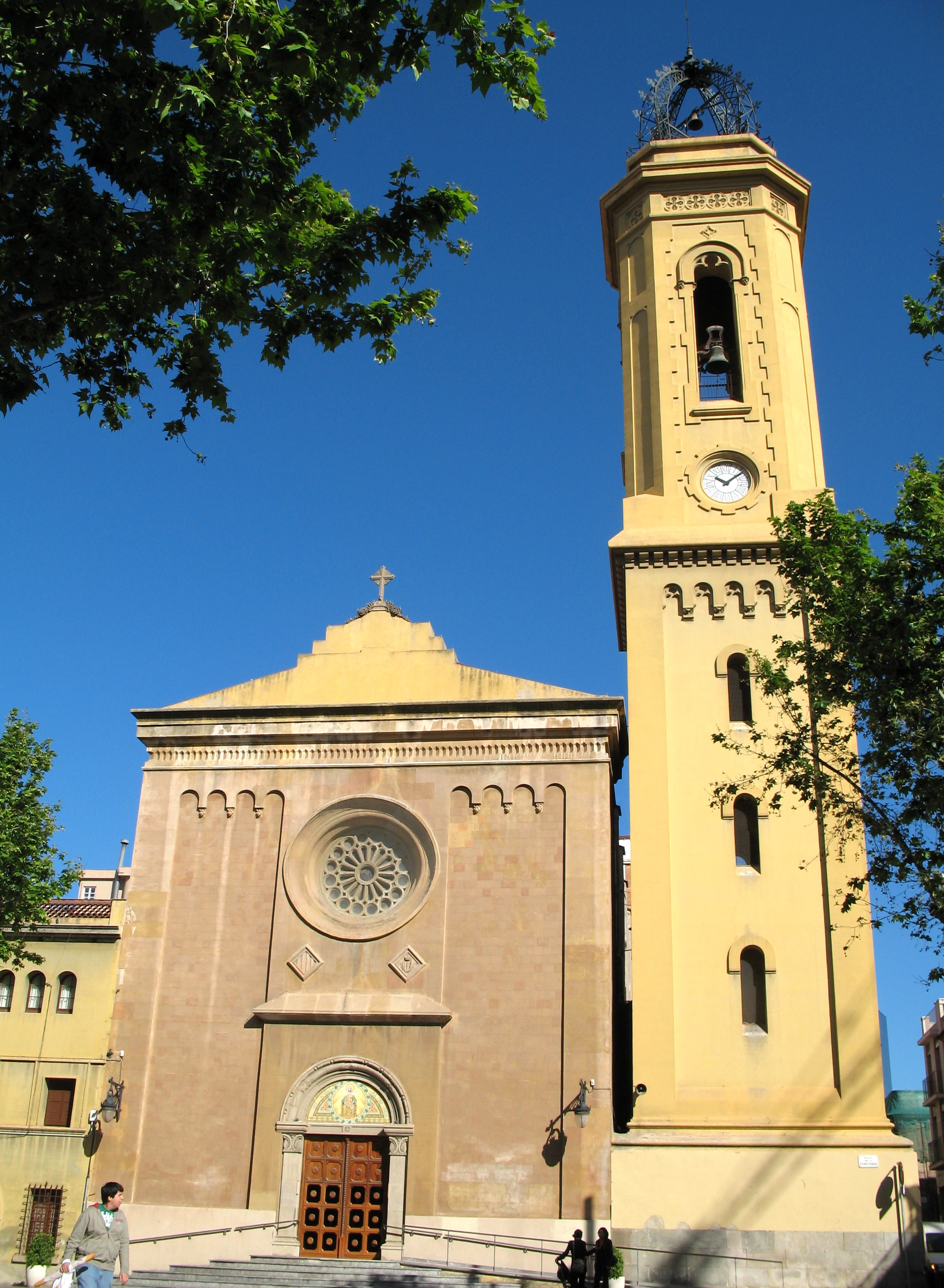 Santa Maria del Remei church at Plaça de la Concòrdia in Les Corts quarter of Barcelona, Spain